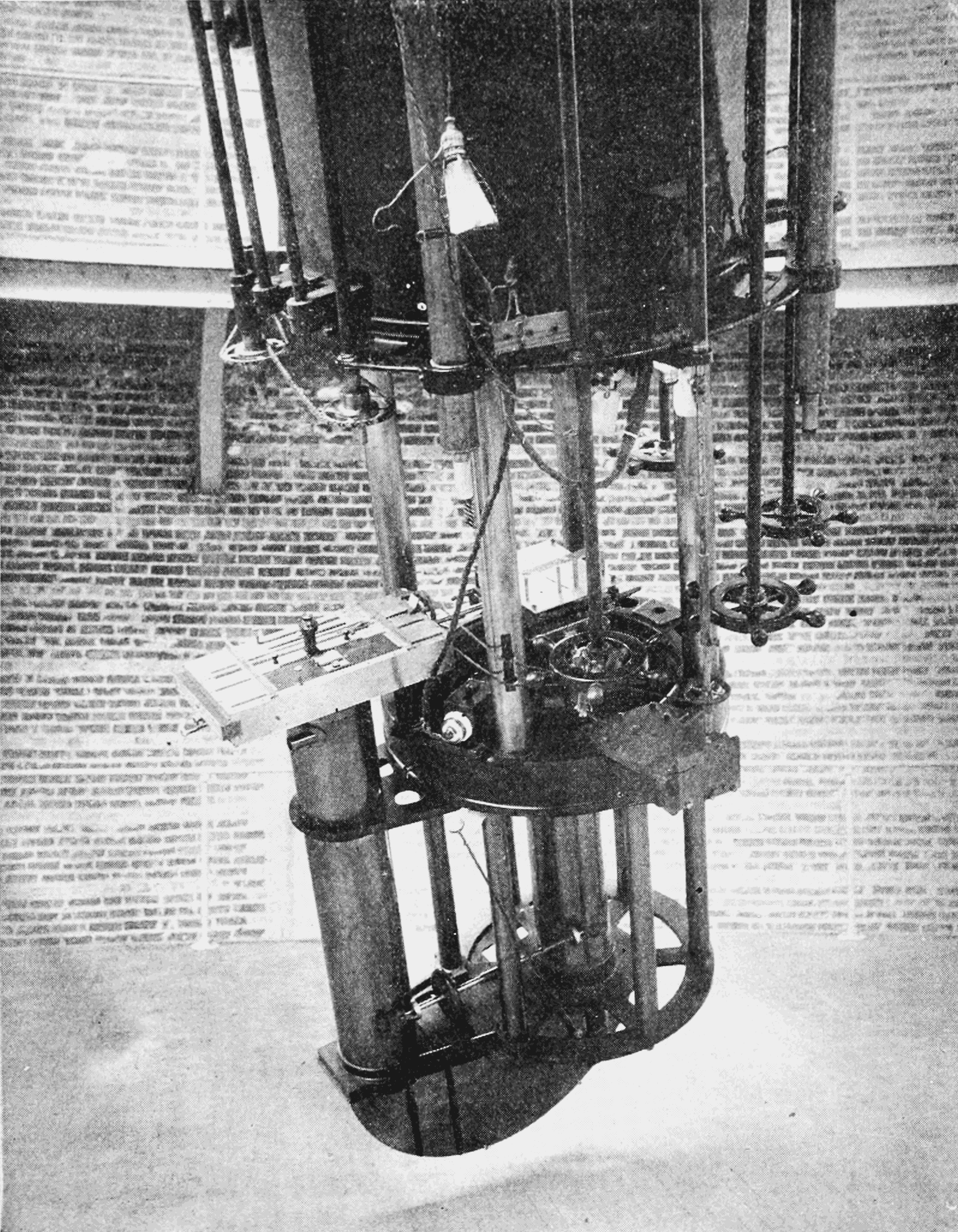 Rumford spectroheliograph attached to the Yerkes telescope